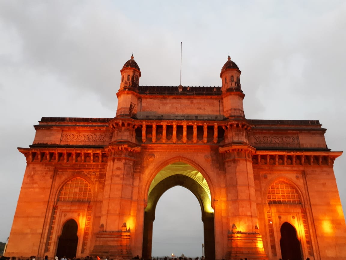 an evening look of Gateway of India .